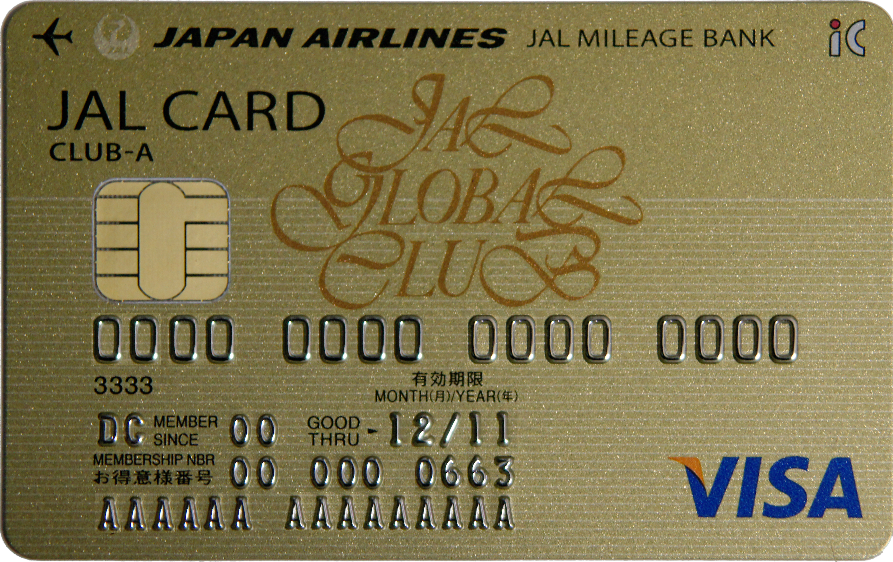 JAL Global Club